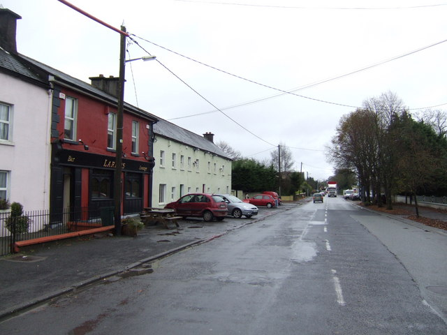 Prosperous, County Kildare, Ireland. The Hutters Cross Roads, Scrawtown, Goatstown and Firmount Cross Roads